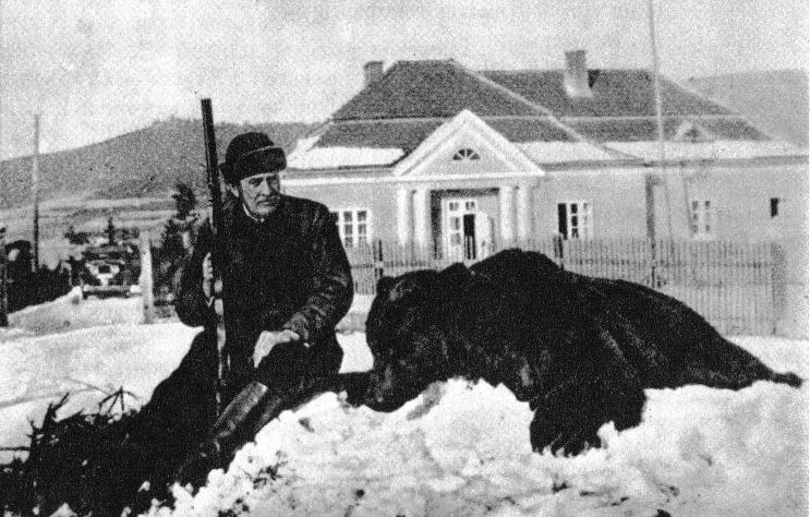 Polish president, Ignacy Mościcki, with killed bear. Photo published by Światowid.